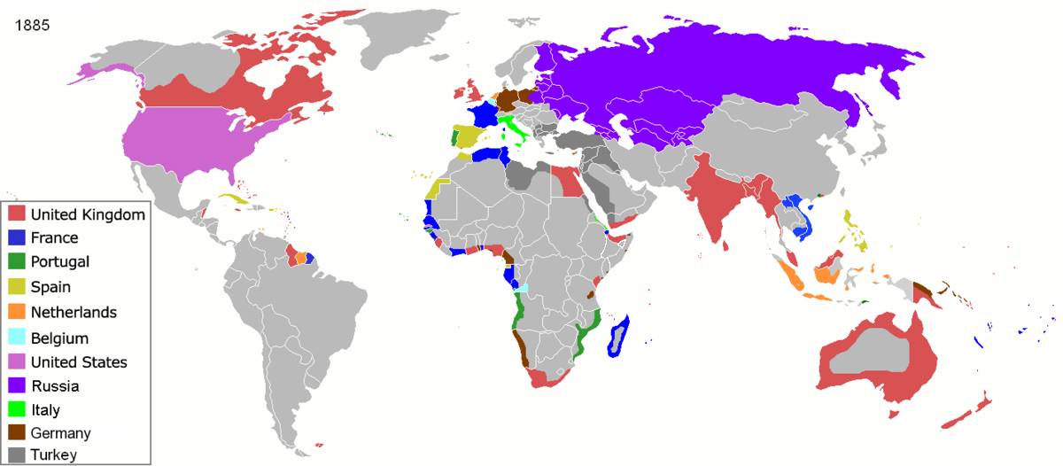 Map of major world powers by year, derived from public domain animated map on wikipedia. Maps of world history BC 2000 · 1000 · 500 · 400 · 323 · 300 · 200 · 100 · 50 AD 1 · 50 · 100 · 200 · 250 · 300 · 400 · 500 · 700 · 750 · 820 · 900 · 1556 · 1700 · 1815 · 1859 Maps of colonization history 1492 · 1550 · 1600 · 1660 · 1754 · 1800 · 1812 · 1822 · 1885 · 1898 · 1914 · 1920 · 1936 · 1938 · 1945 · 1959 · 1974 · 1975 · 2007 Animated Map Maps of Cold War 1959 · 1980 · see also: Eastern Hemisphere only maps template (1300BC-1500AD) (this template: · view · discuss ) As the orriginal licence of the animation was Public Domain, this image which has been derived from it is too: This work has been released into the public domain by its author, Andrei nacu. This applies worldwide. In some countries this may not be legally possible; if so: Andrei nacu grants anyone the right to use this work for any purpose, without any conditions, unless such conditions are required by law.